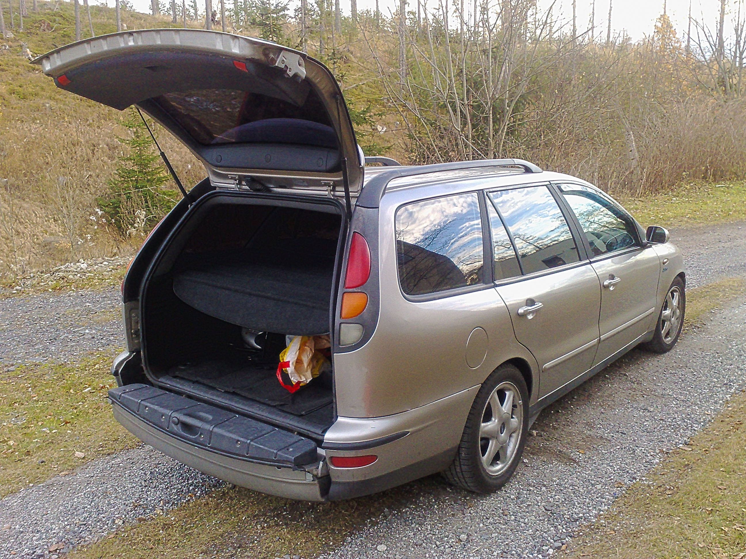 Folding rear bumper of the Fiat Marea Weekend, which if necessary, lowers the loading edge of the luggage compartment to the level of its bottom.